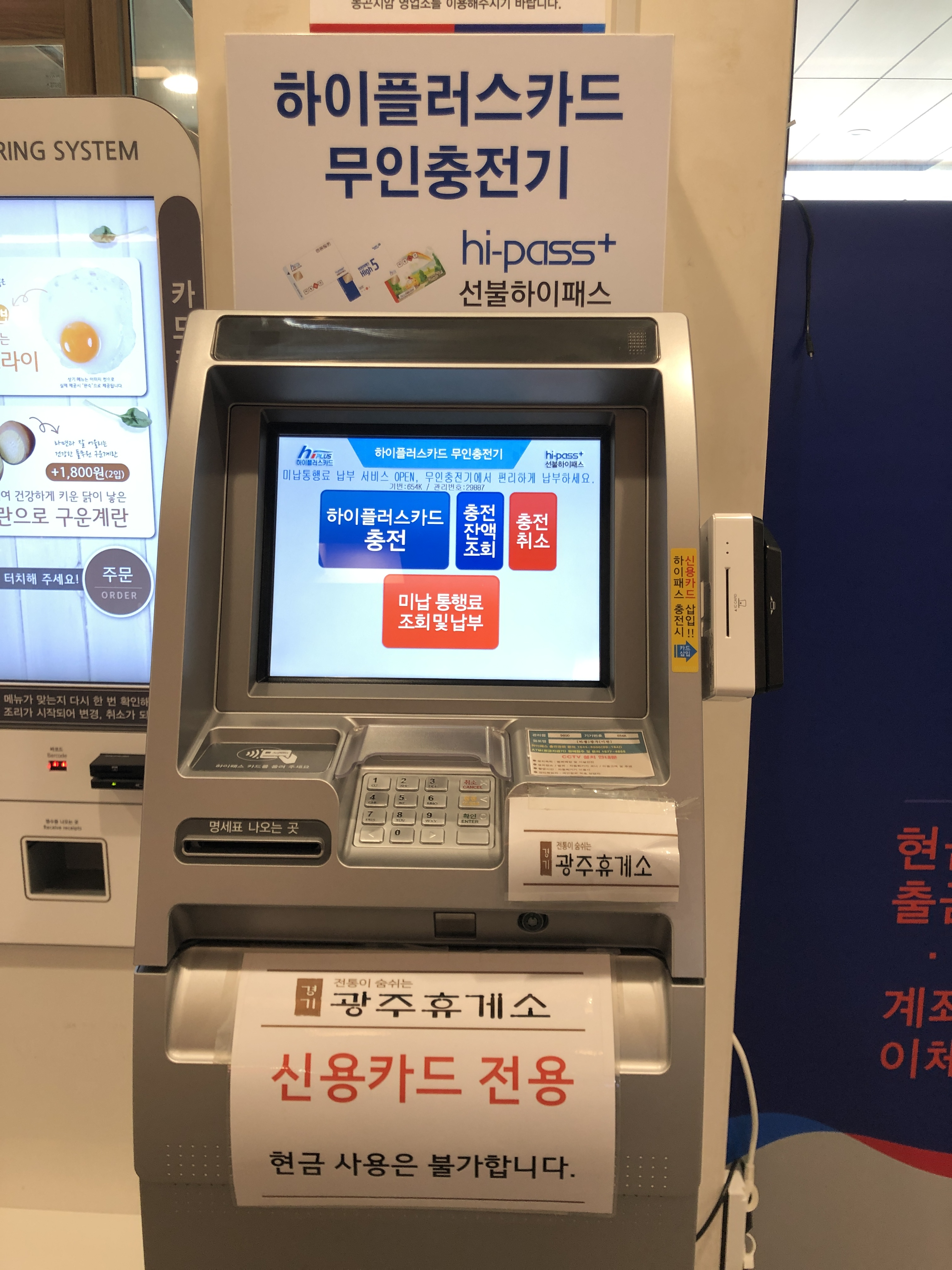 Gwangju Service Area